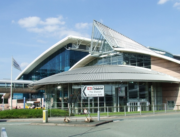 The Station. Bus, coach and railway station at Manchester Airport. See also 393914.